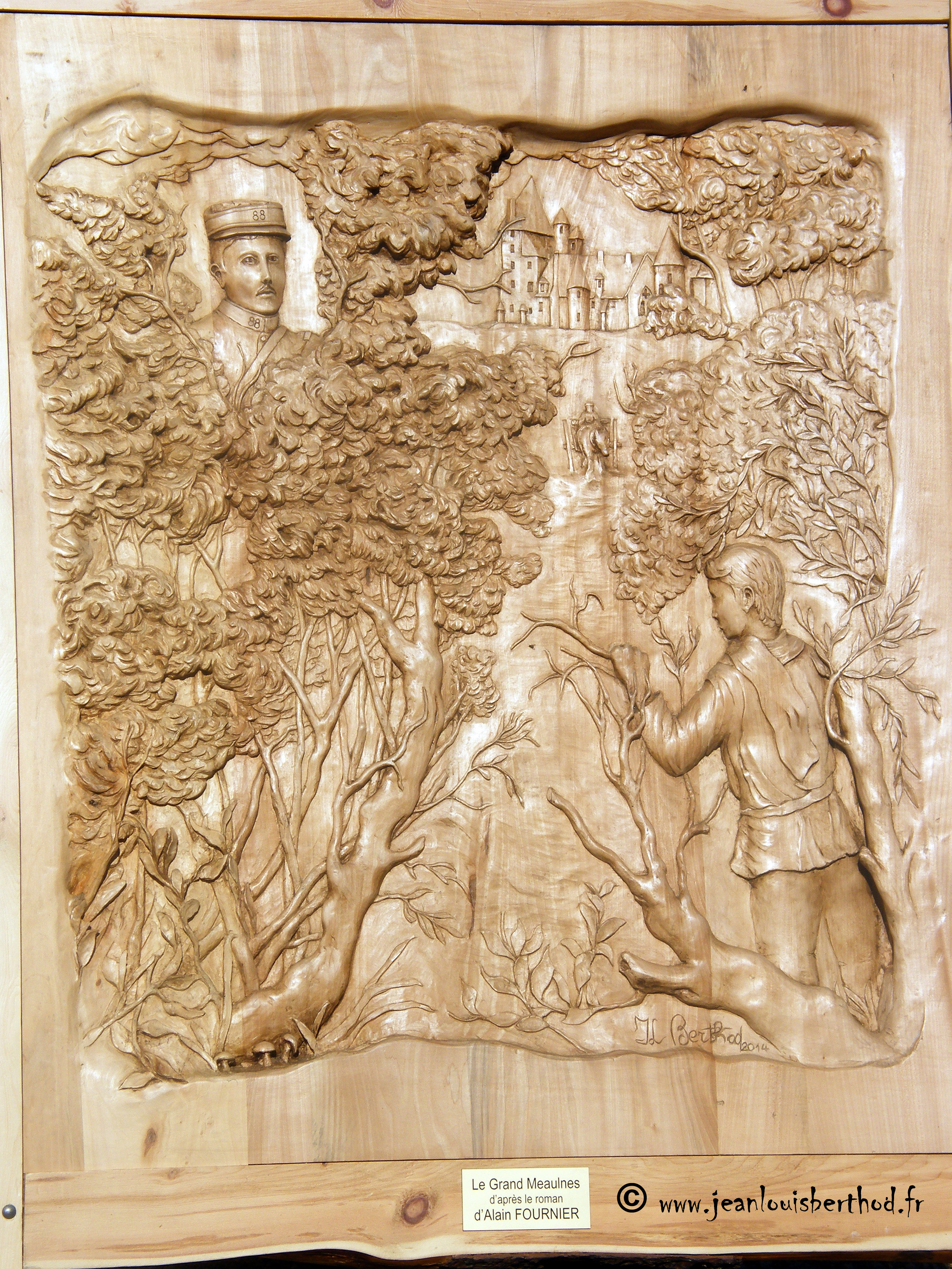 Sculpture in lime tree (130 cm x 140 cm)realized by Jean-Louis Berthod, French sculptor from Albens, in Savoy. Memory of adolescence, a visit of La Chapelle-d’Angillon and its museum, the particular landscape, the atmosphere that emerges of this place made it possible to realize this board which is also a tribute to the missing persons of the Great War. Inspired by the book of Alain-Fournier "Meaulnes the Great".